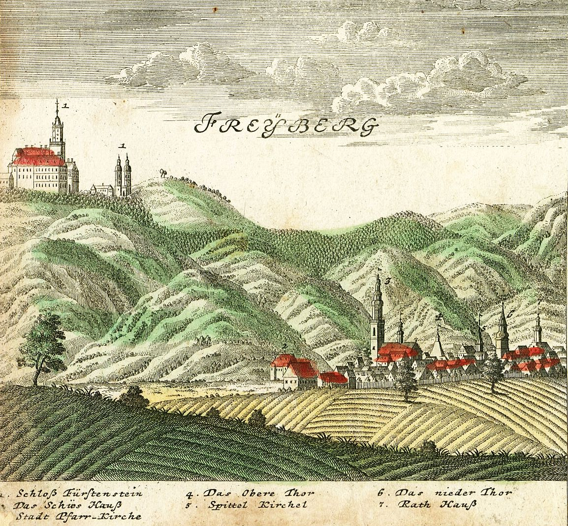 Świebodzice